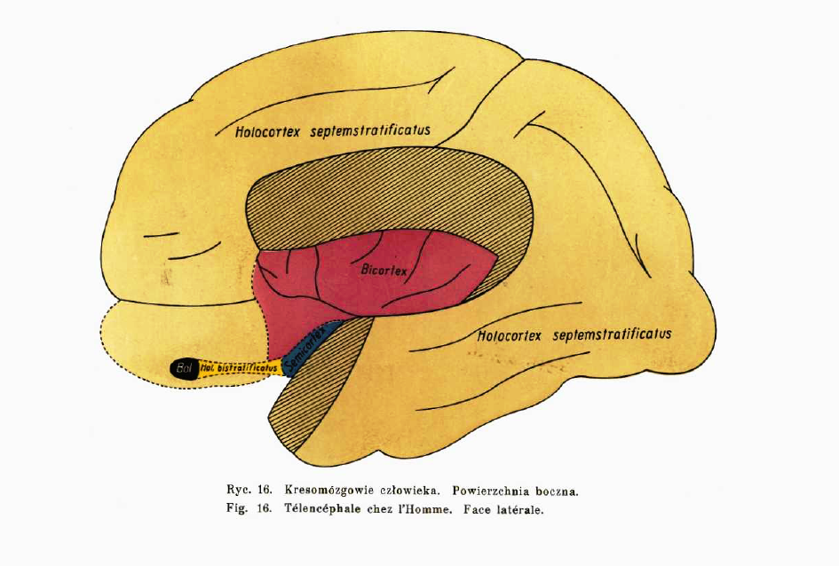 Human telencephalon, lateral view